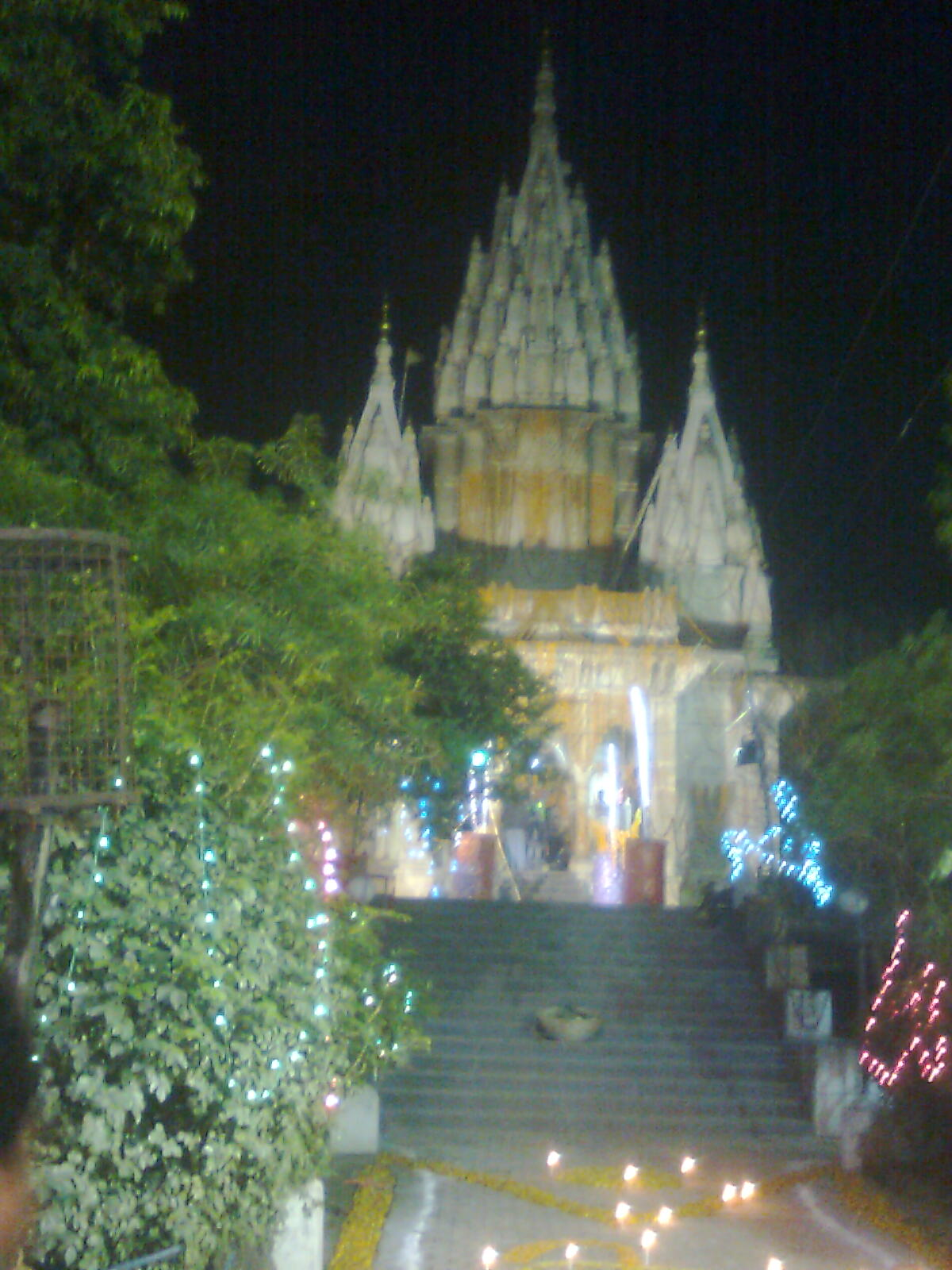 Patthar Shivala Biswan sitapur